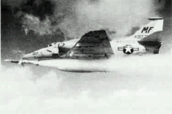 A Douglas A-4F Skyhawk (BuNo 15497?) of U.S. Marine Corps Reserve attack squadron VMA-134 Smoke firing an AGM-45 Shrike anti-radiation missile in 1981.